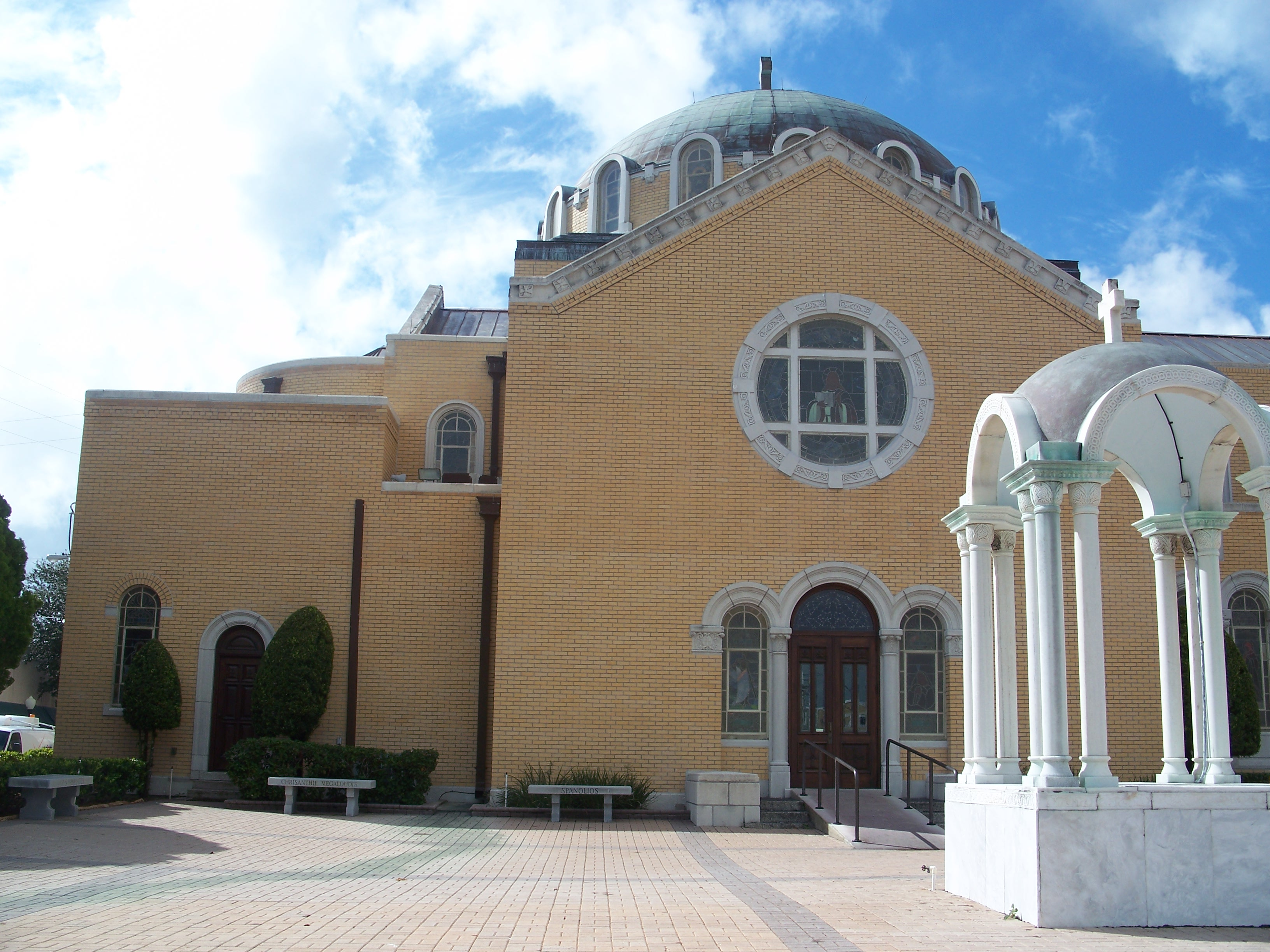 St. Nicholas Cathedral in the Tarpon Springs Historic District, in Tarpon Springs, Florida